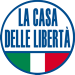 Logo of the House of Freedoms, Italian right-wing coalition of parties led by Silvio Berlusconi.